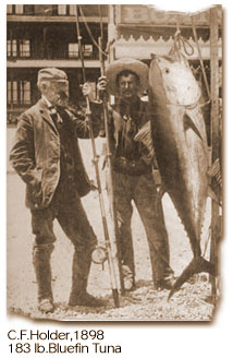 Charles Frederick Holder exhibits his his then record 183 lb. bluefin Tuna caught June 1, 1898, boatman James Gardner [1], Avalon Bay Beach, Avalon, Santa Catalina Island, California, USA.